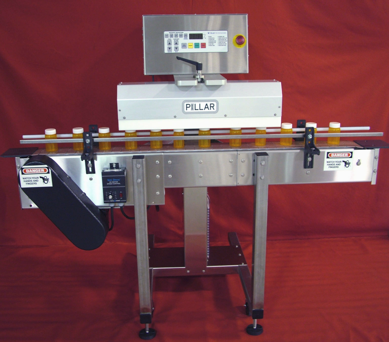 induction sealer w/conveyor